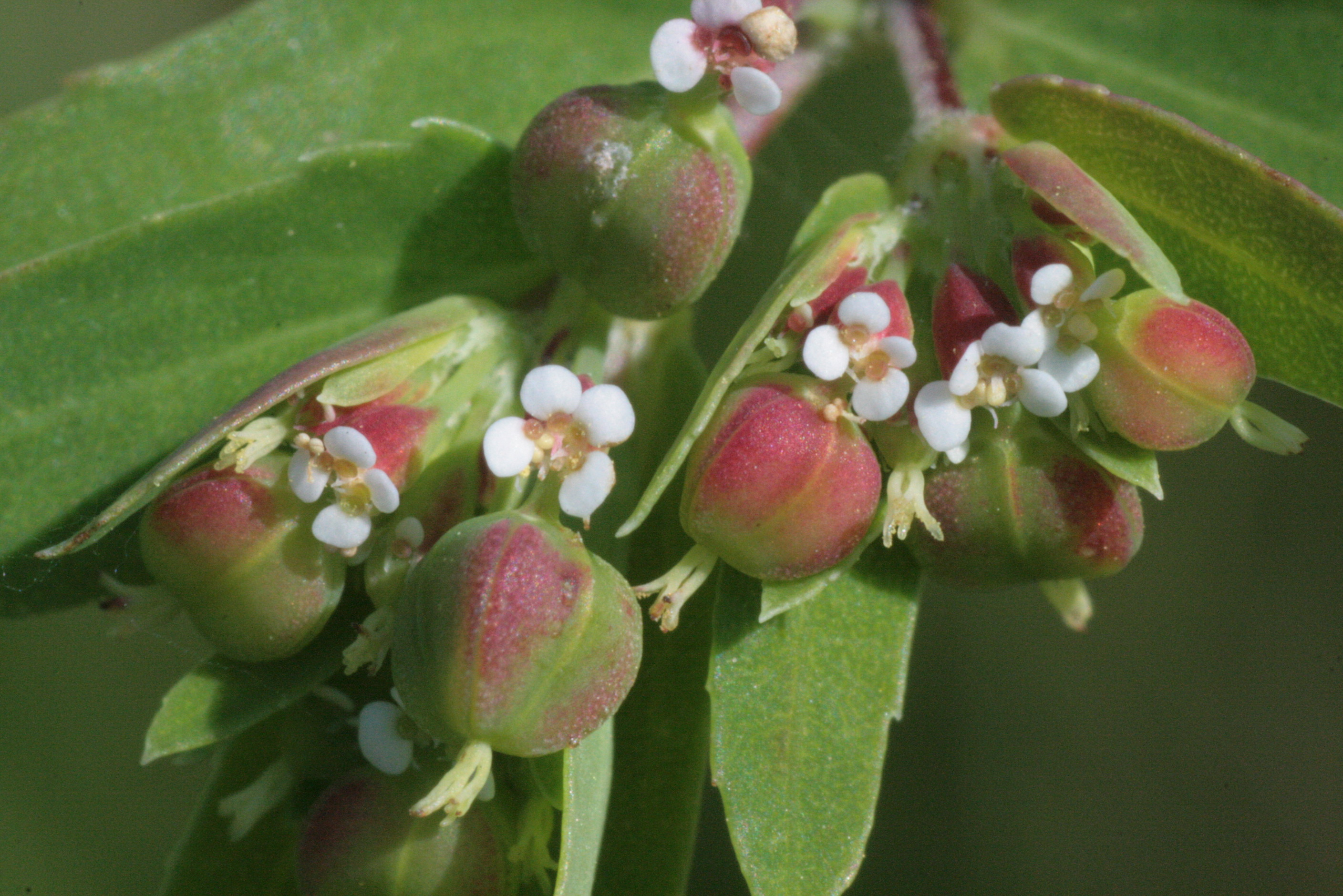 Euphorbia nutans